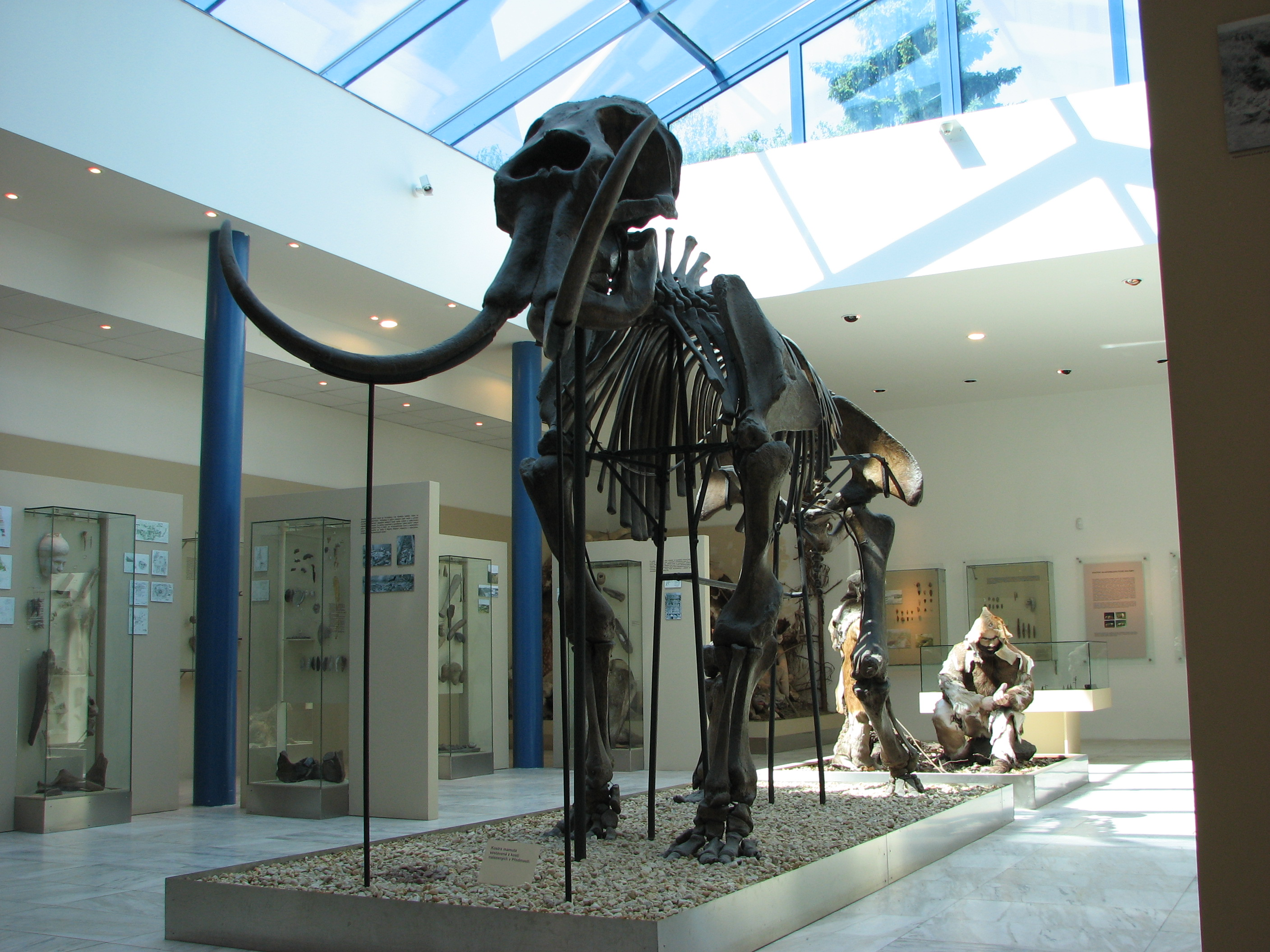 Skeleton of a Woolly Mammoth in the Brno museum Anthropos. The skeleton is composed from bones found on the famous locality Předmostí.